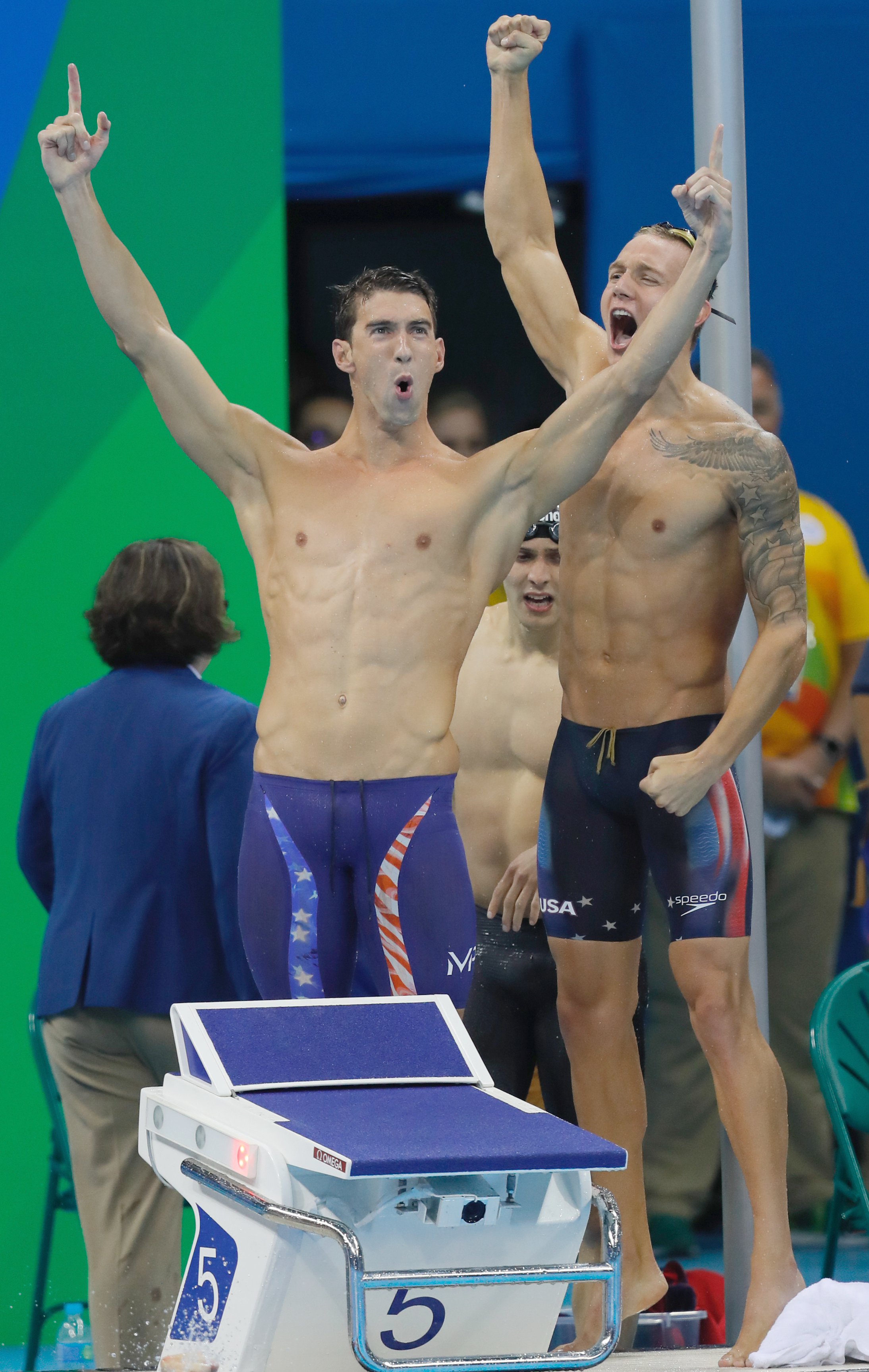 Rio de Janeiro - Estados Unidos vence o revezamento 4 x 100m nado livre nos Jogos Olímpicos Rio 2016, no Estádio Aquático.